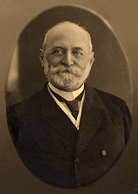 Robert Goldschmit (1845-1923), Gymnasiallehrer, Politiker, Historiker und Autor, in Karlsruhe